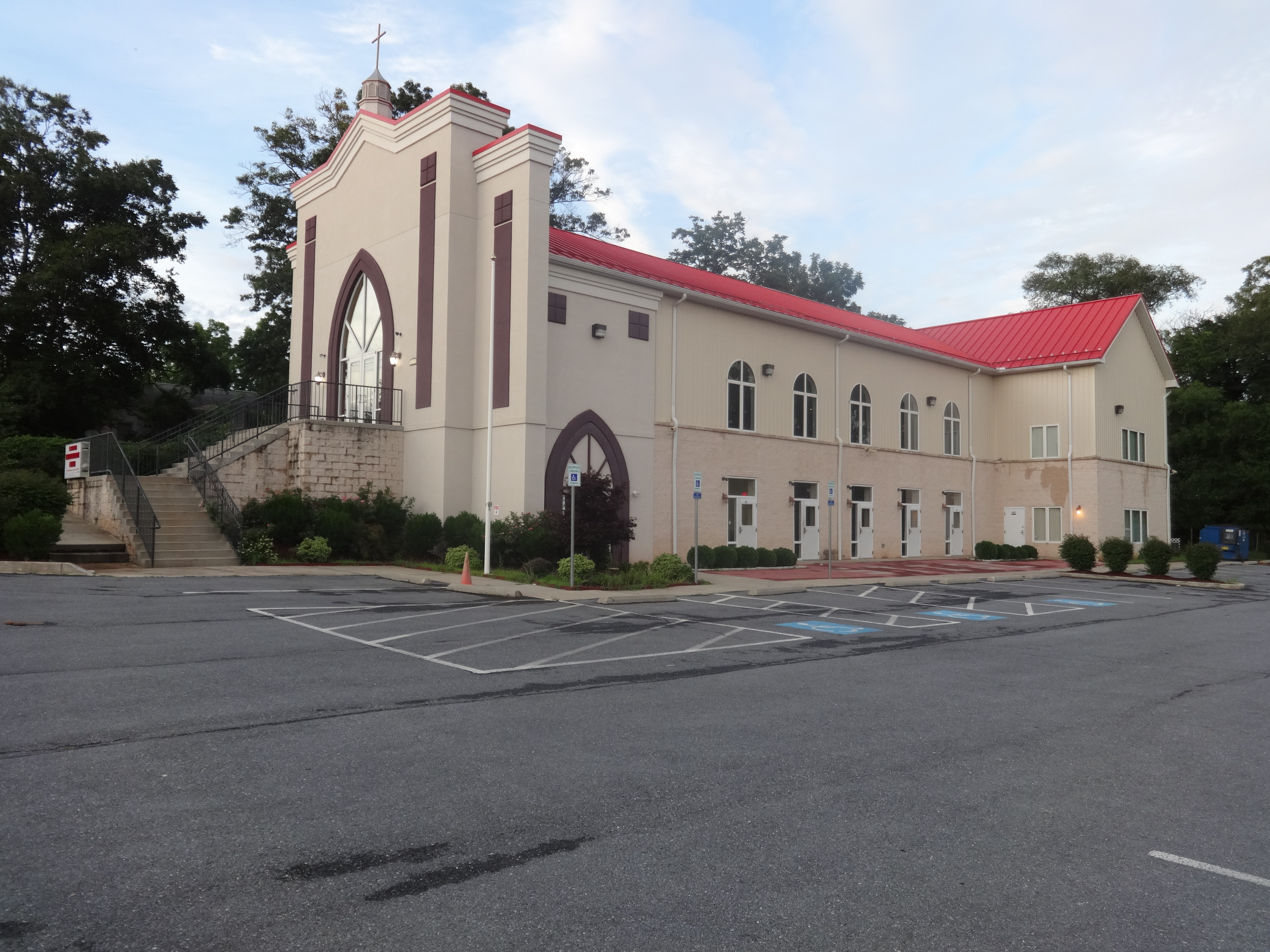 St. Thomas Indian Orthodox Church, Silver Spring, Montgomery County, Maryland.